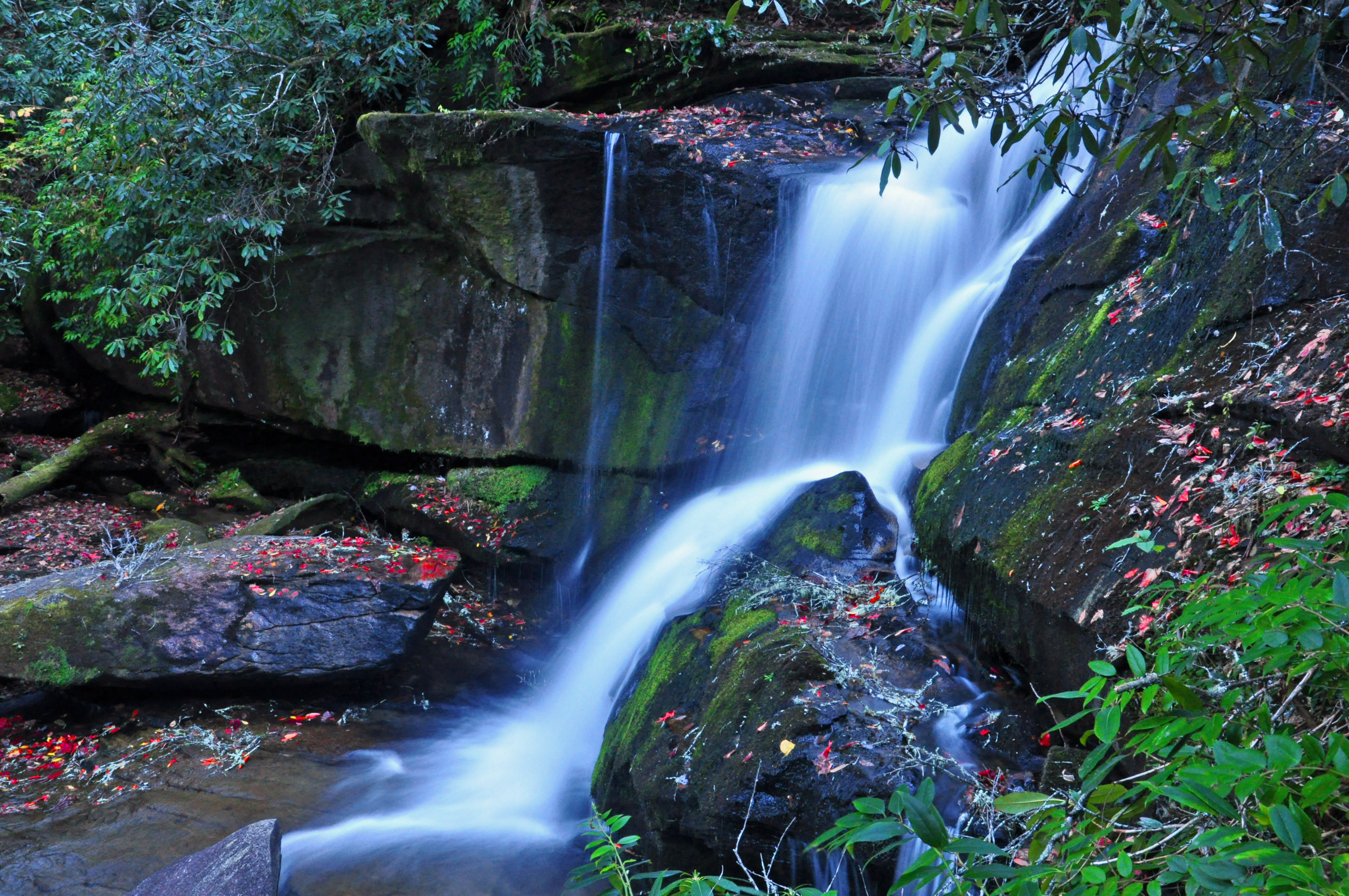 Cedar Rock Creek Falls is located in Transylvania County North Carolina just outside Brevard and is located at the Pisgah Center for Wildlife Education and Fish Hatchery.